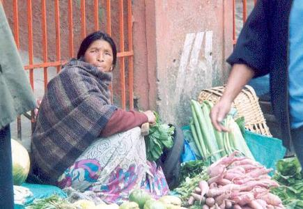 A market trader selling vegetables in Darjeeling.